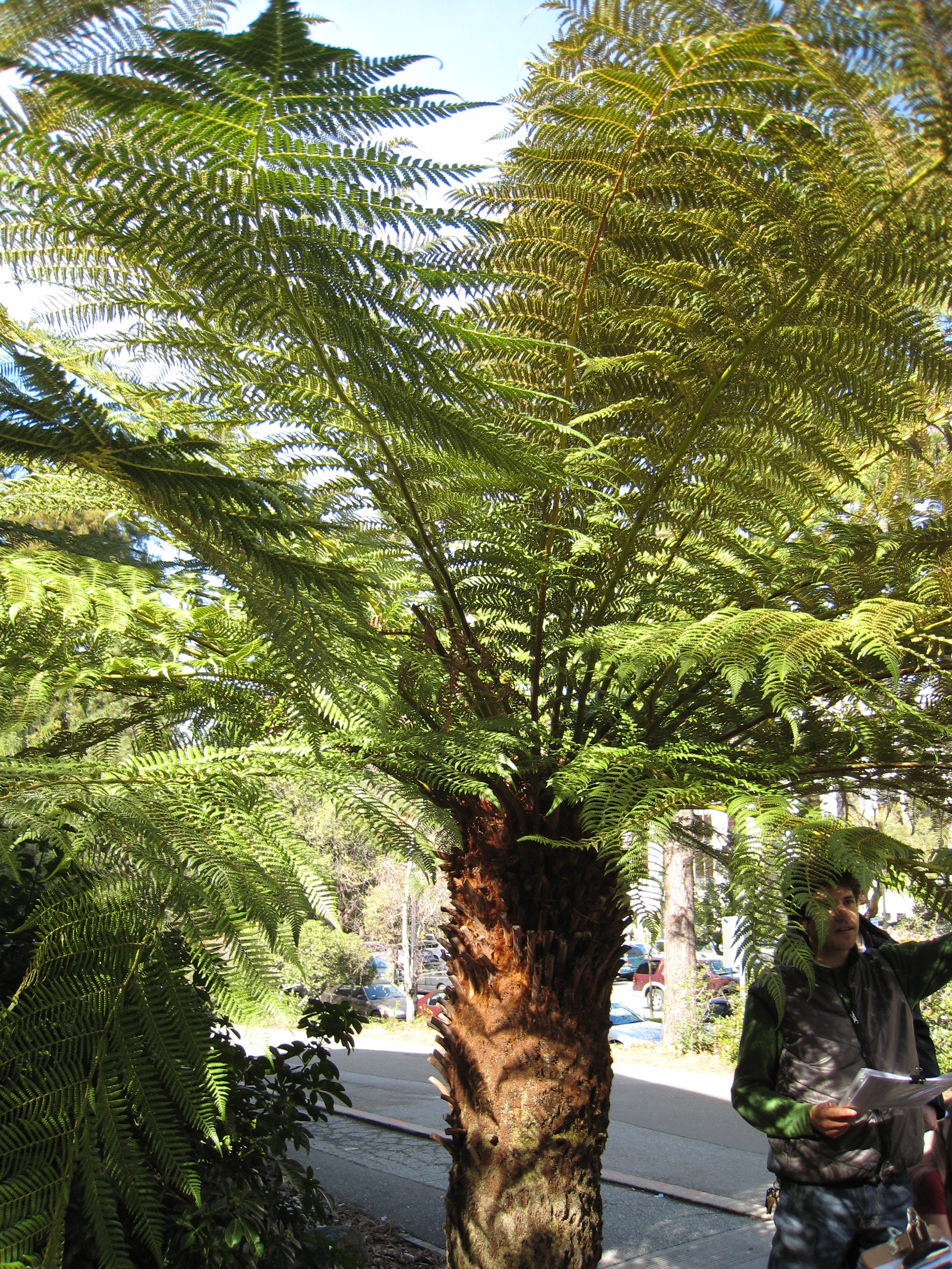 Dicksonia antarctica (Tasmanian Fern Tree)